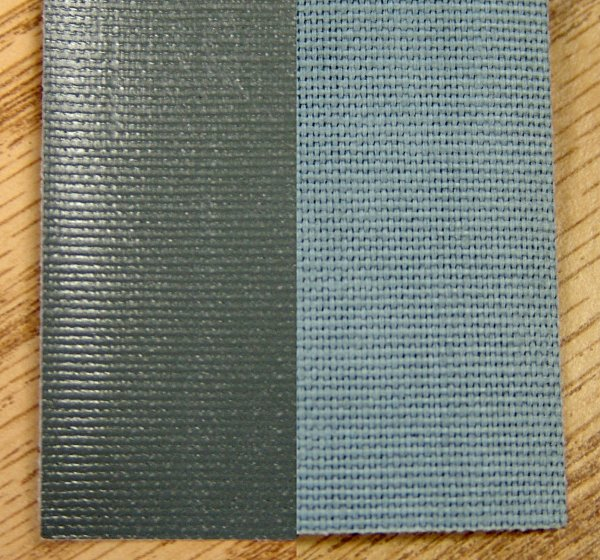 This is a composite of two photos taken on June 8, 2004, with a Sony Cybershot DSC-F828, in the Homer Babbidge Library. The two images were cropped and copy-pasted together, then level-adjusted and unsharp-masked with The Gimp, and scaled from 1392x1300 to 600x560, and saved at a quality of 0.85. The photo depicts two sides of a sample strip of buckram. The sample is courtesy of the preservation department at the Homer Babbidge Library.